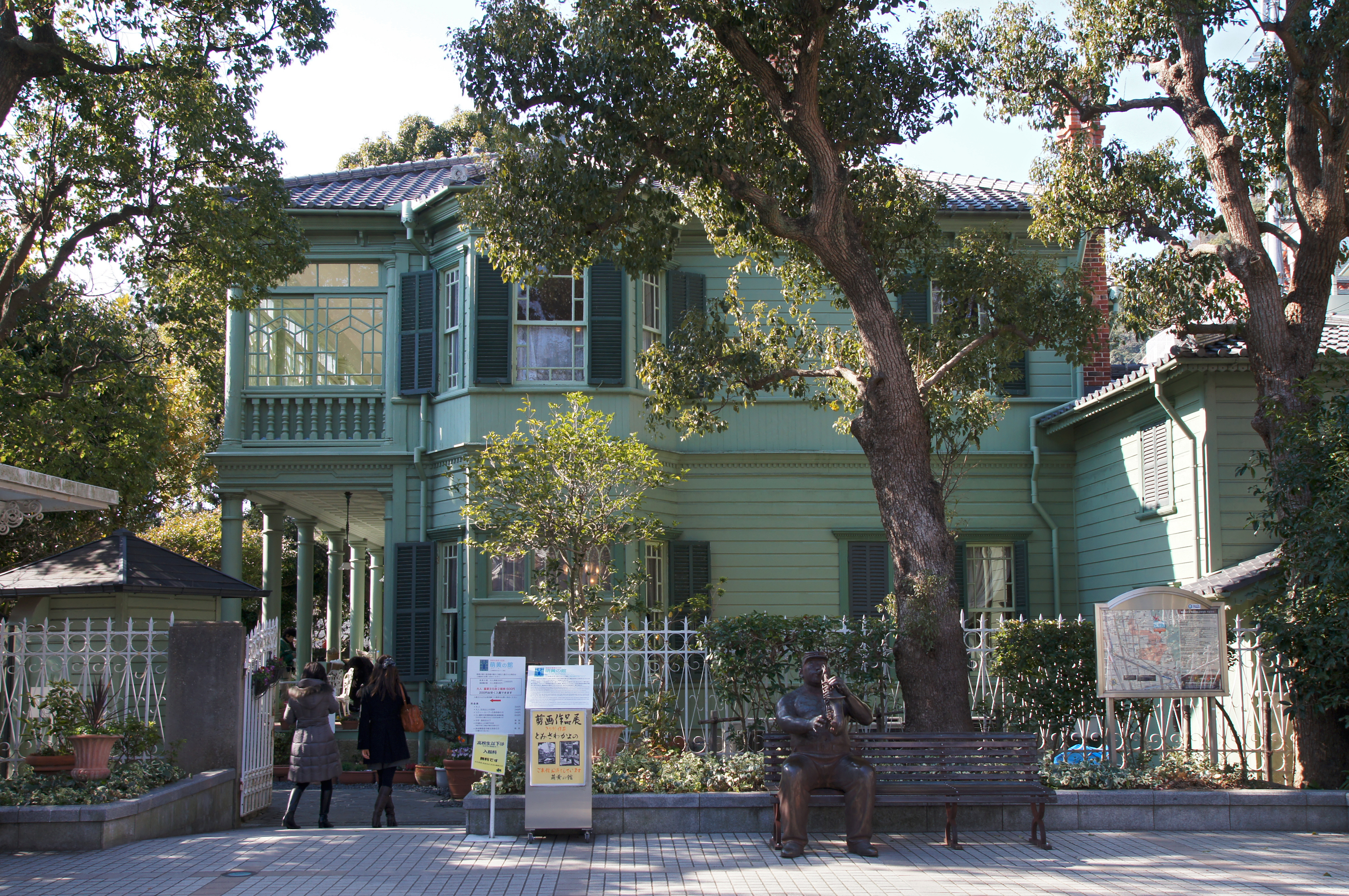 Old Sharp House is Japan's Important Cultural Property in Kobe, Hyogo prefecture, Japan.